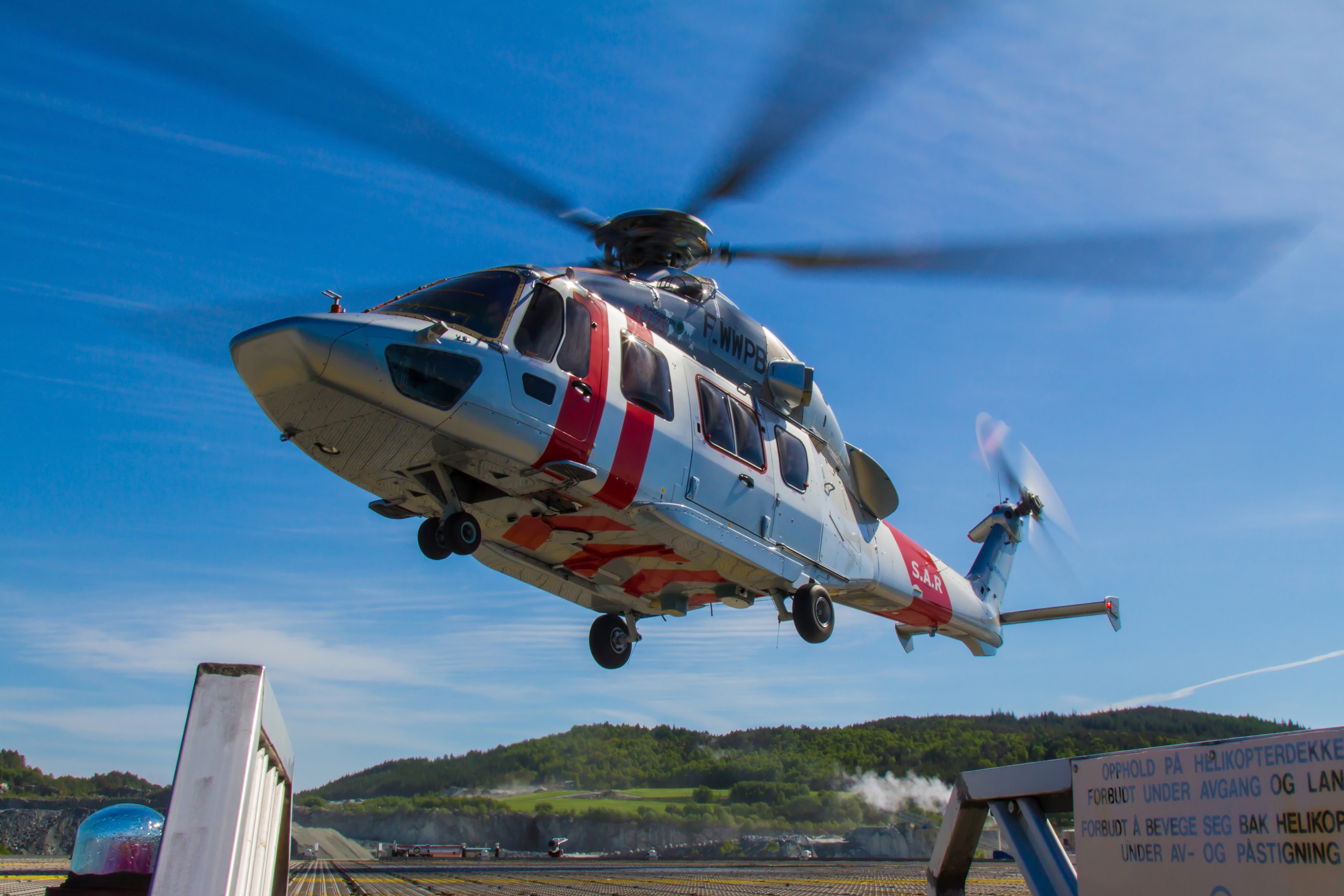 IMG_4088-2 Large Higpass Aircraft typeEurocopter EC175OperatorEurocopterRegistrationF-WWPBTypePhotographPhotographerTom Andreas ØstremSource Gallery page: Construction numberPT001